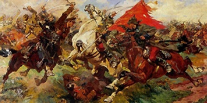 Battle for the Flag